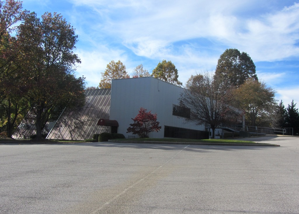 Patuxent Publishing Company Building